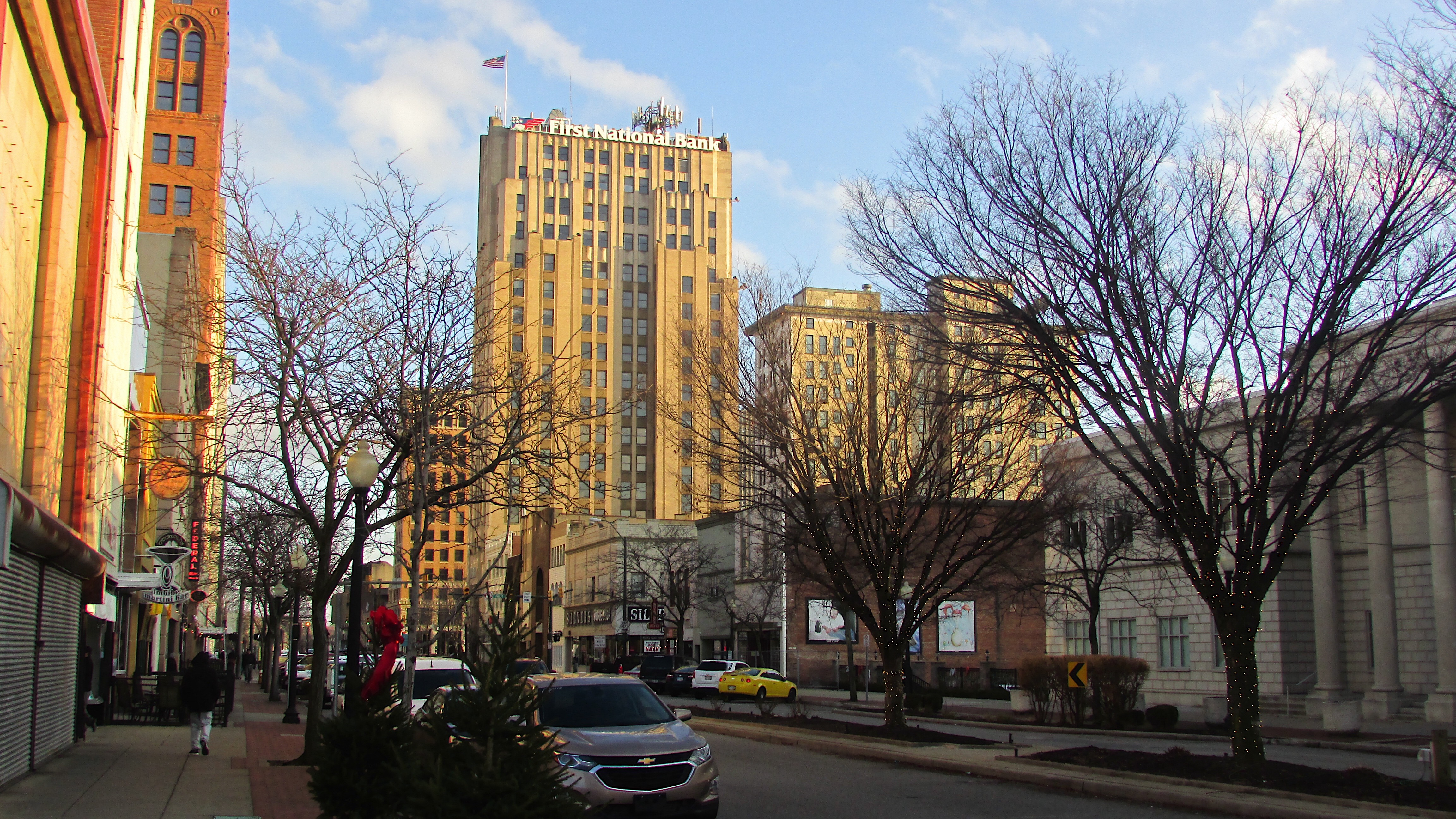 This photo is of Downtown Youngstown, OH from West Federal Street.